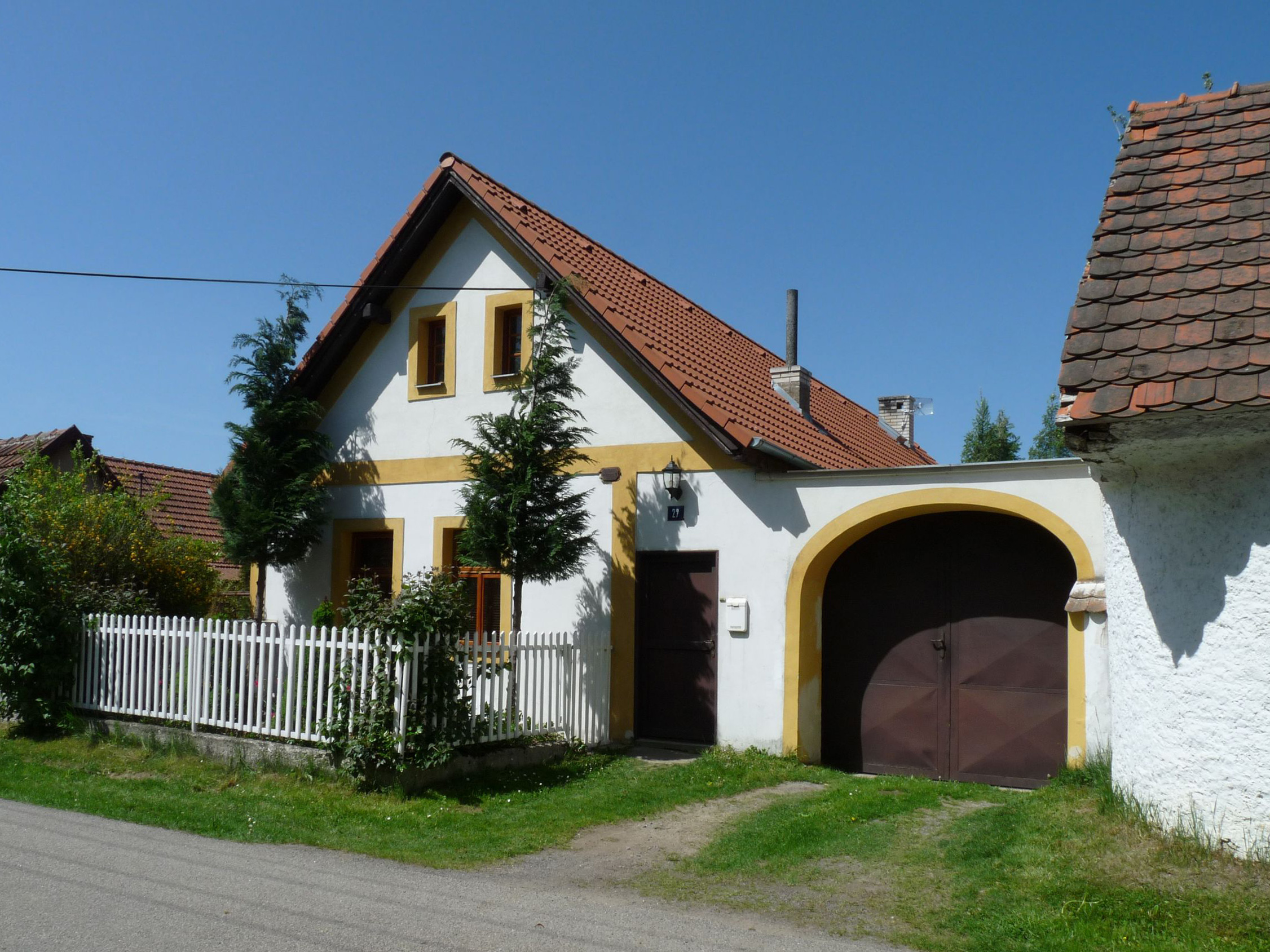 House No 27 in the village of Terezín, Tábor District, South Bohemian Region, Czech Republic, part of the municipality of Radenín.